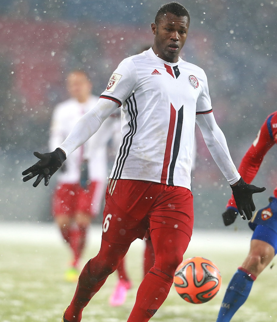 Sékou Condé with FC Amkar Perm in a game against PFC CSKA Moscow.